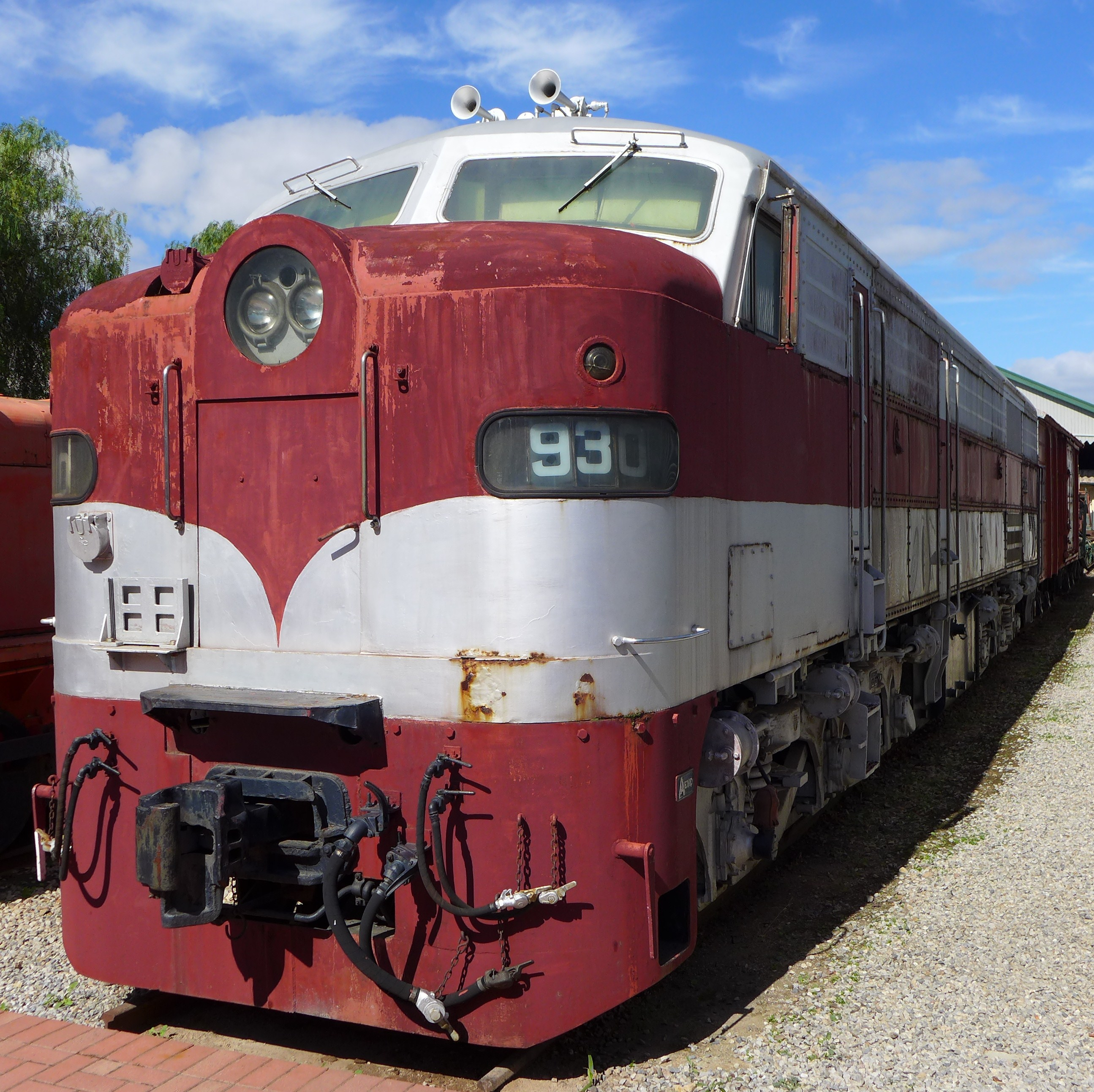 Preserved ex-South Australian Railways 930 class leader no. 930, on display at the National Railway Museum (Port Adelaide).